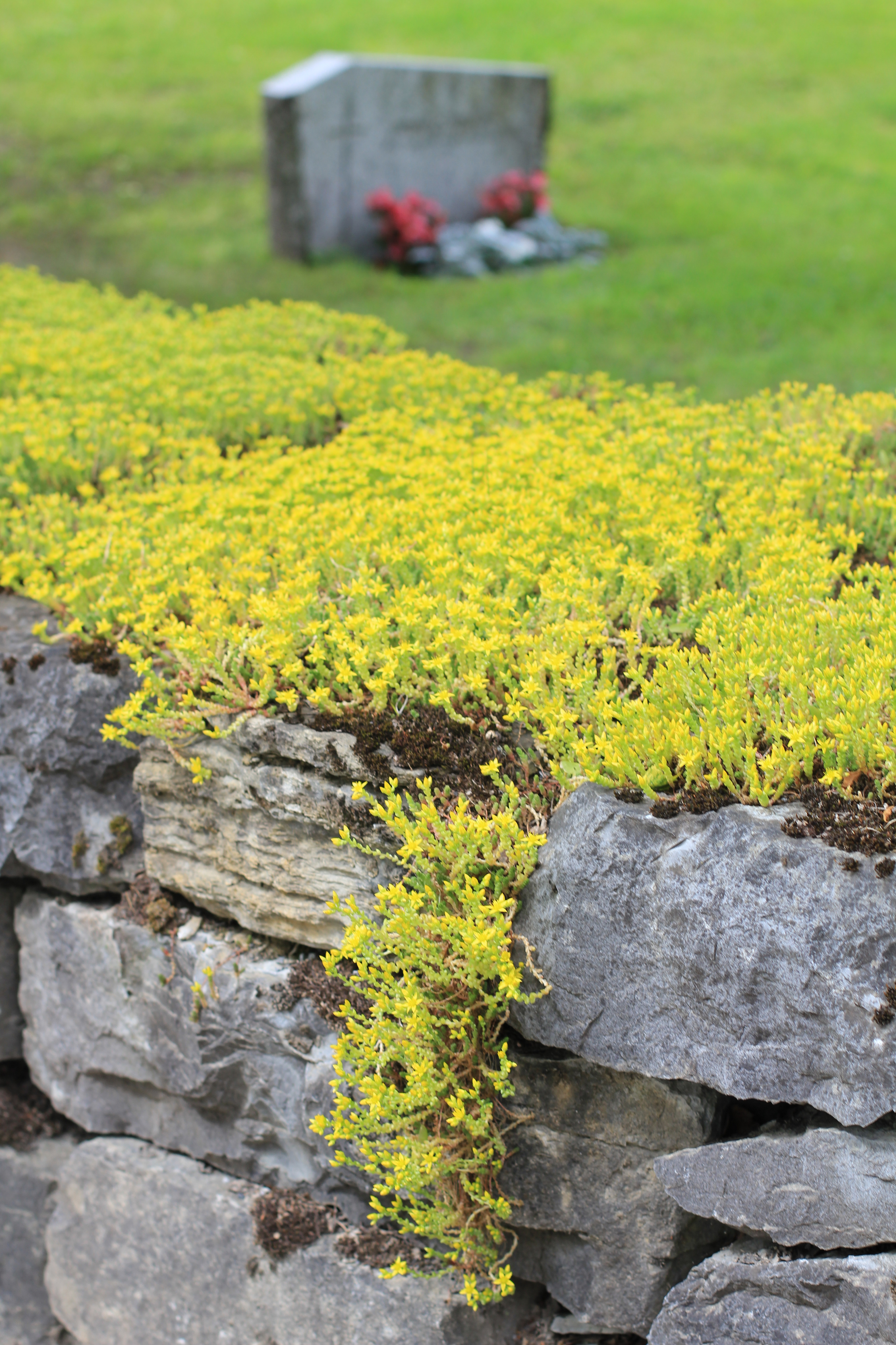 Flowering yellow moss on the stone fence surrounding the churchyard of Hoff church at Østre Toten, Norway.